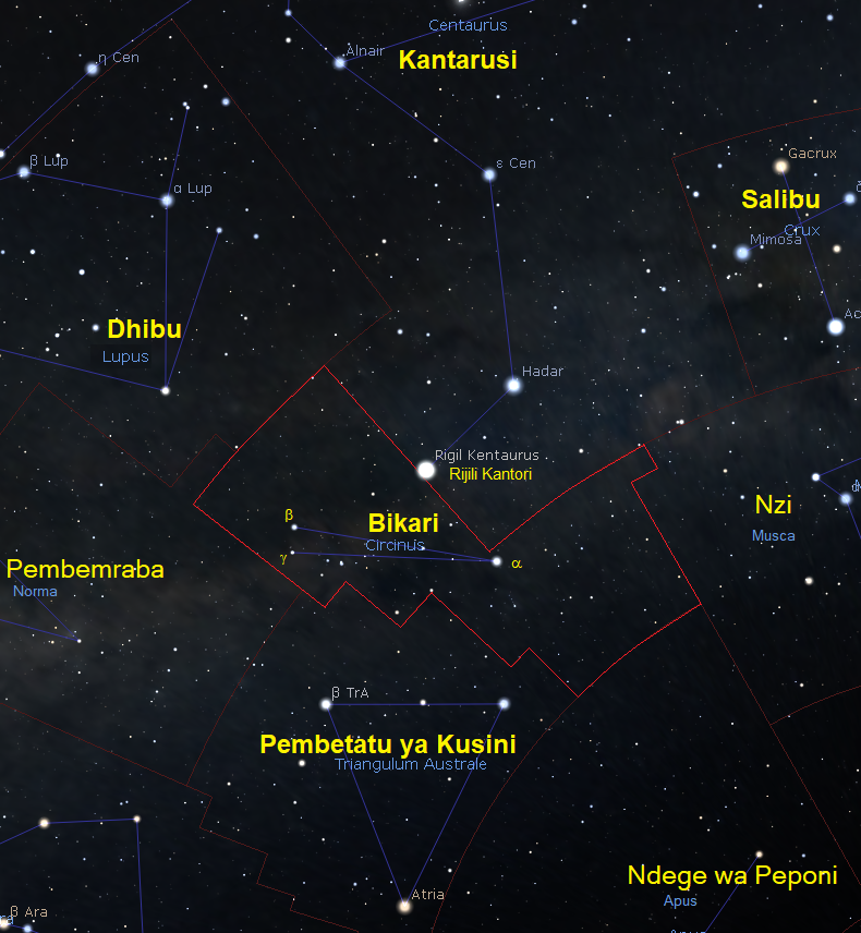 Constellation Circinus as seen from Tanzania, Swahili labelled Kiswahili: Kundinyota Bikari (Circinus) jinsi inavyoonekana kutoka Tanzania, majina kwa Kiswahili